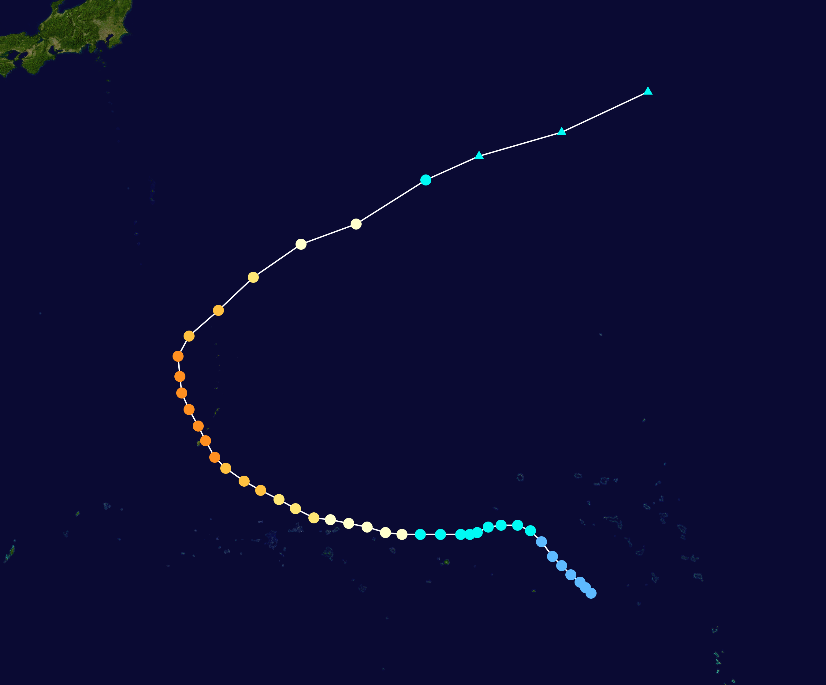 Typhoon Pongsona (2002) track. Uses the color scheme from the Saffir-Simpson Hurricane Scale.